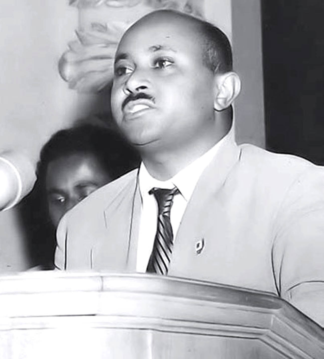 Photograph of Abdel Khaliq Mahjub; taken before his death in 1971.